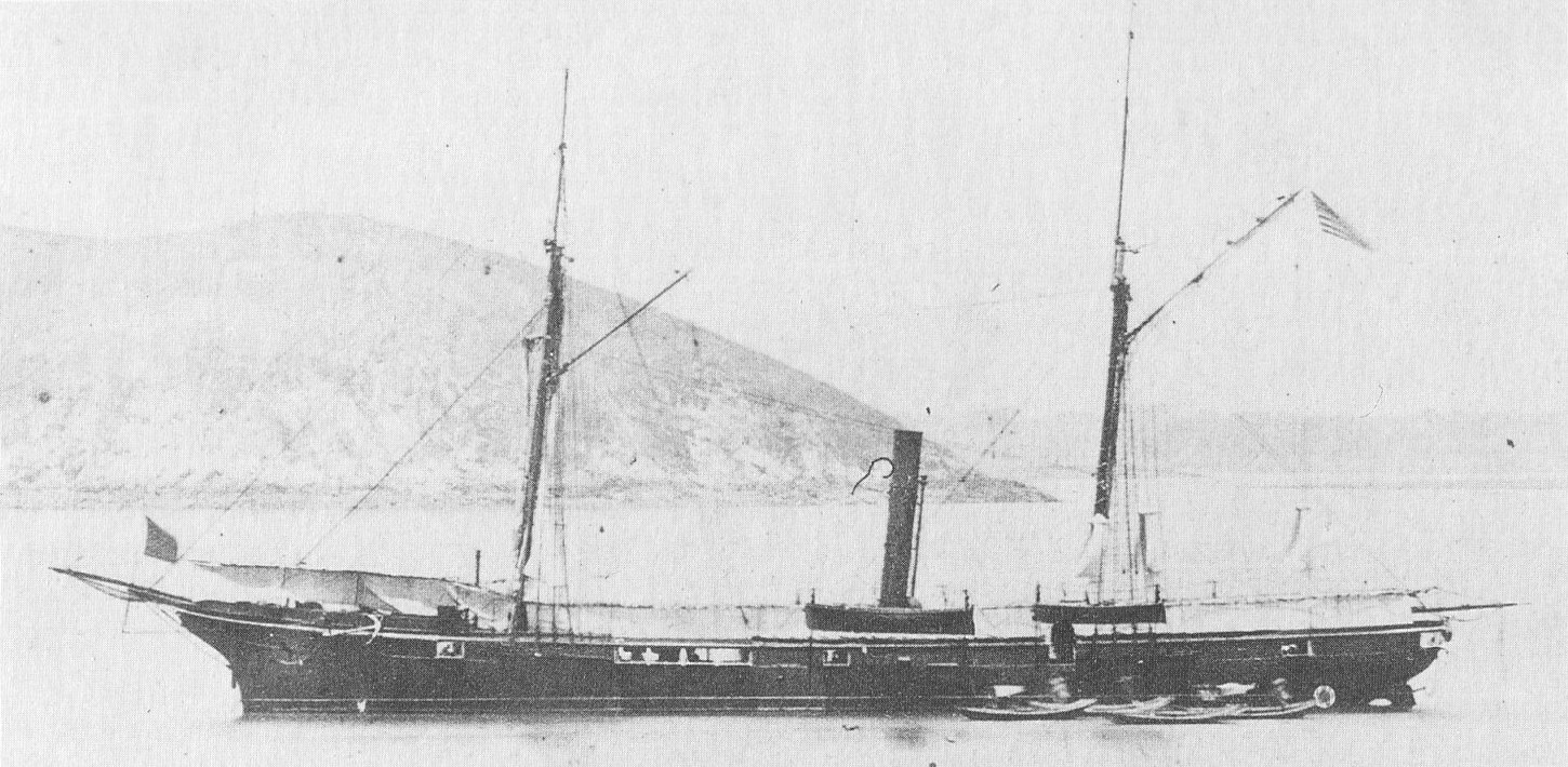 USS Aroostook in Chinese waters, ca. 1867. She has canvas erected along the length of the deck to provide shade for the crew.